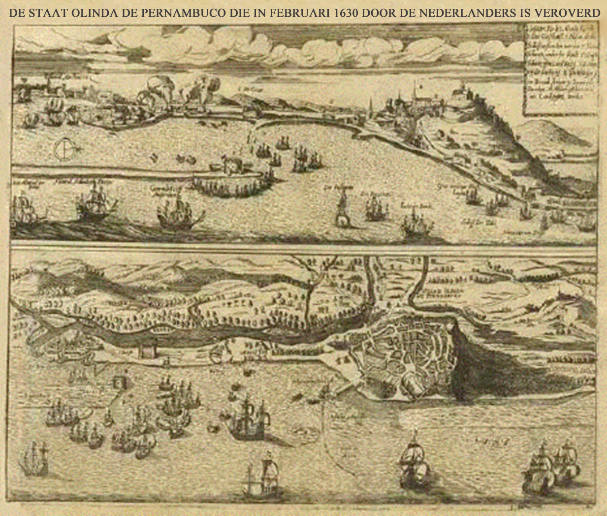 German map of dutch Olinda in Brasil probably made in 1650